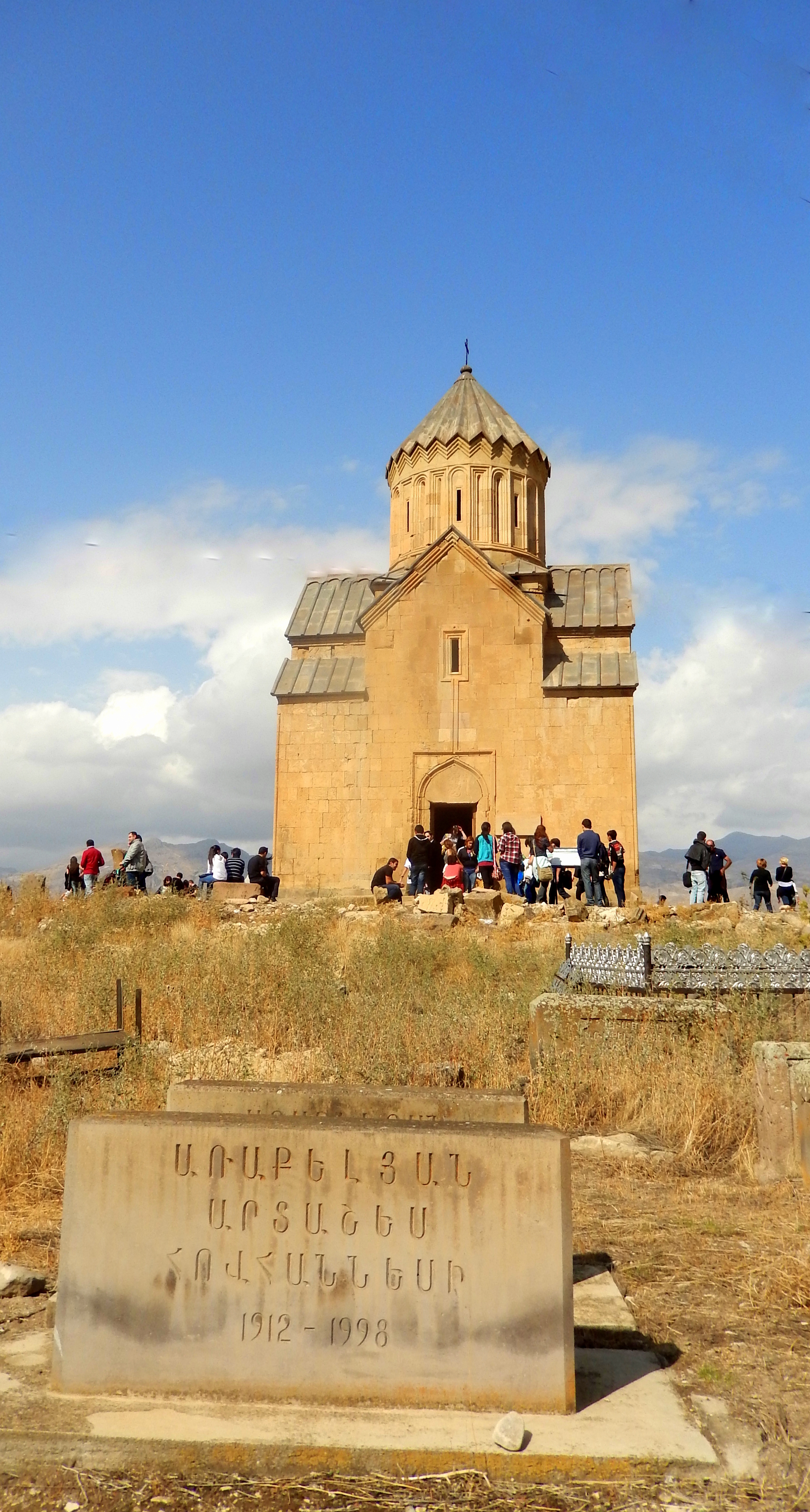 Areni Church